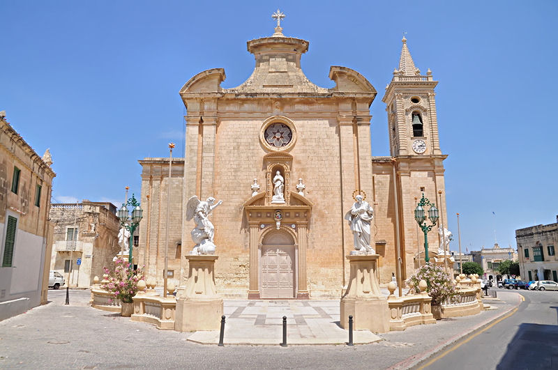 Malta